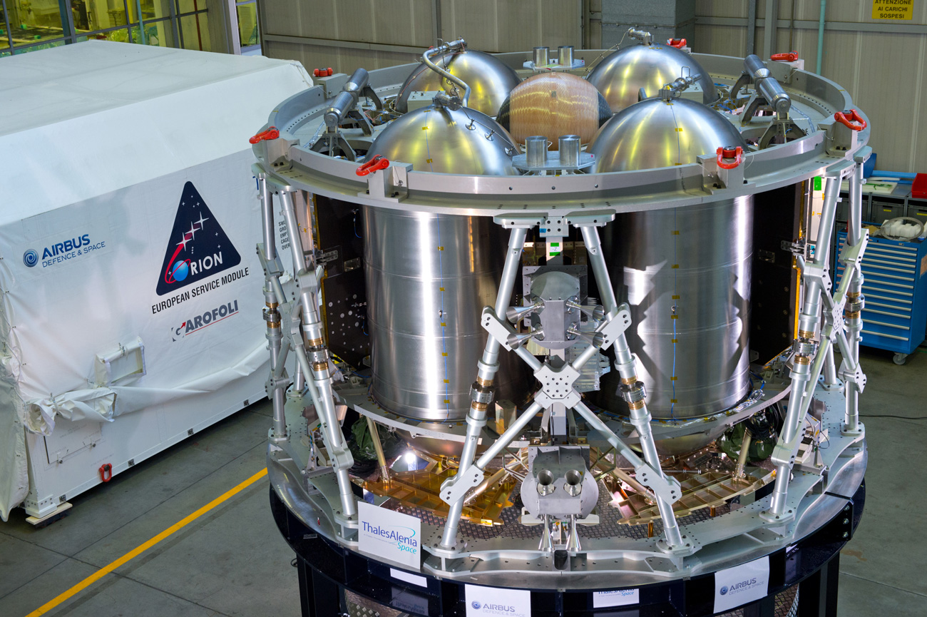 Structural test article for the Orion Service Module, assembled by Airbus Defence and Space on behalf of ESA, ready for delivery to NASA in November 2015 ORIGINAL IMAGE DESCRIPTION: The structural test article of the European service module for Orion is being assembled at Airbus Defence and Space. Airbus is building the module, which will supply the spacecraft’s power, in-space propulsion and air and water for the crew, on behalf of ESA (European Space Agency) for Orion. The STA is being transported to Glenn Research Center's Plum Brook station for testing. Credits: NASA